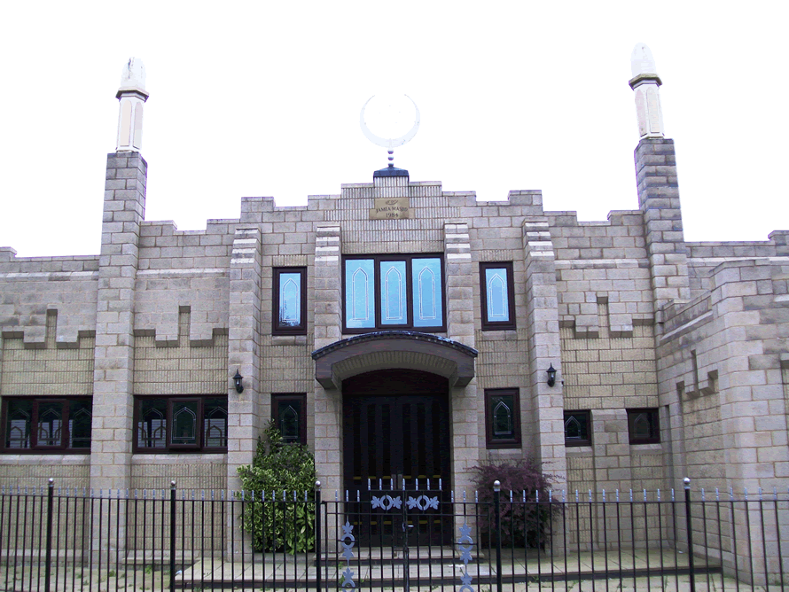 Front of Jamea Masjid